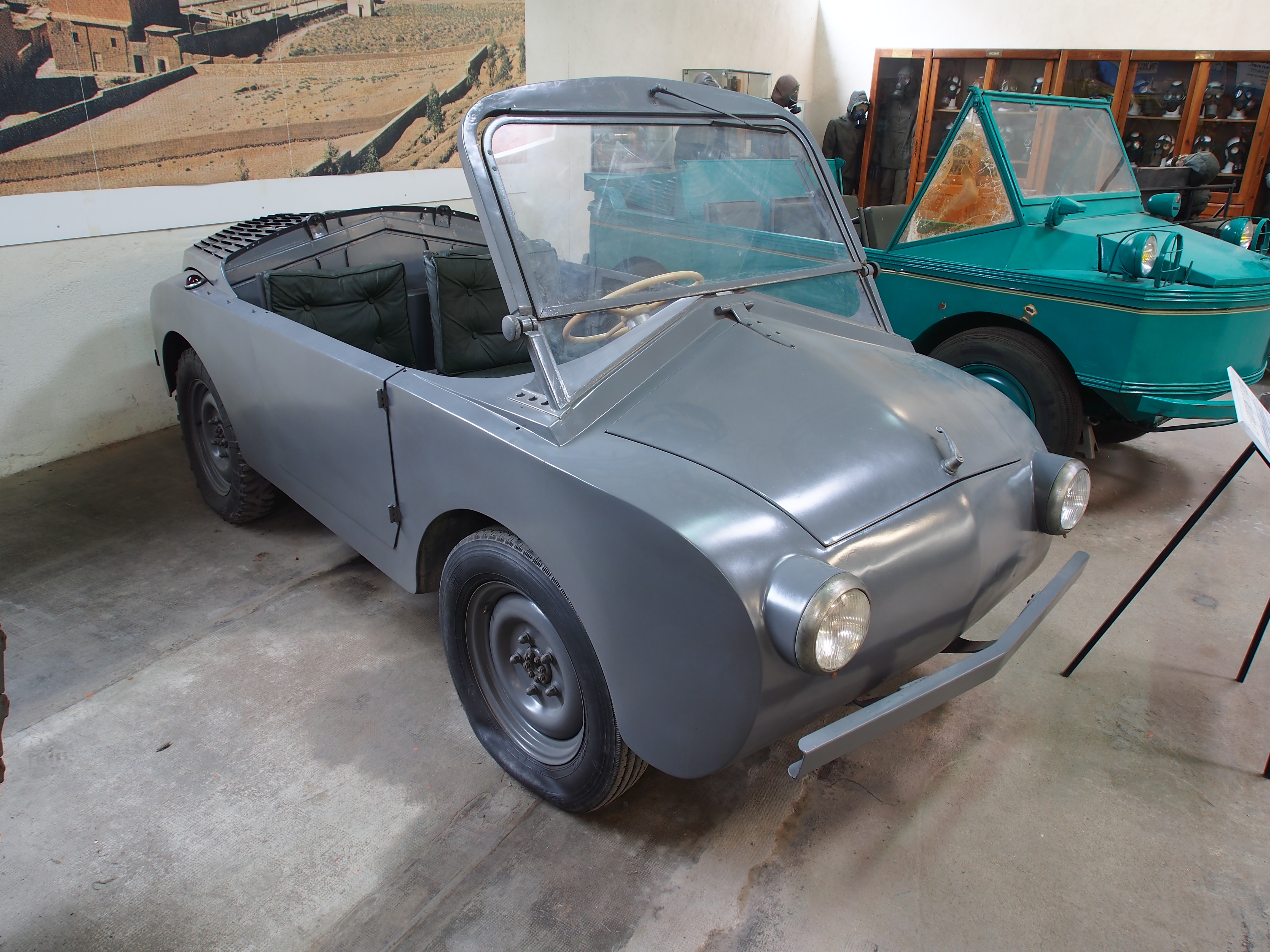 Photographed in the Musée des Blindés, France.